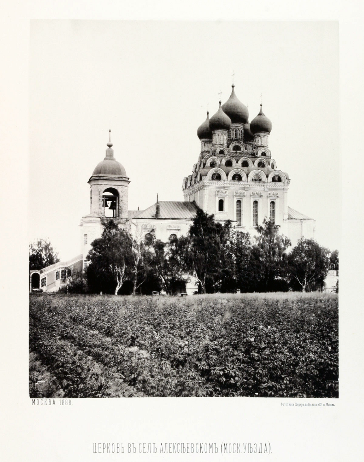 Plate 37: Church in Alekseevskoe.